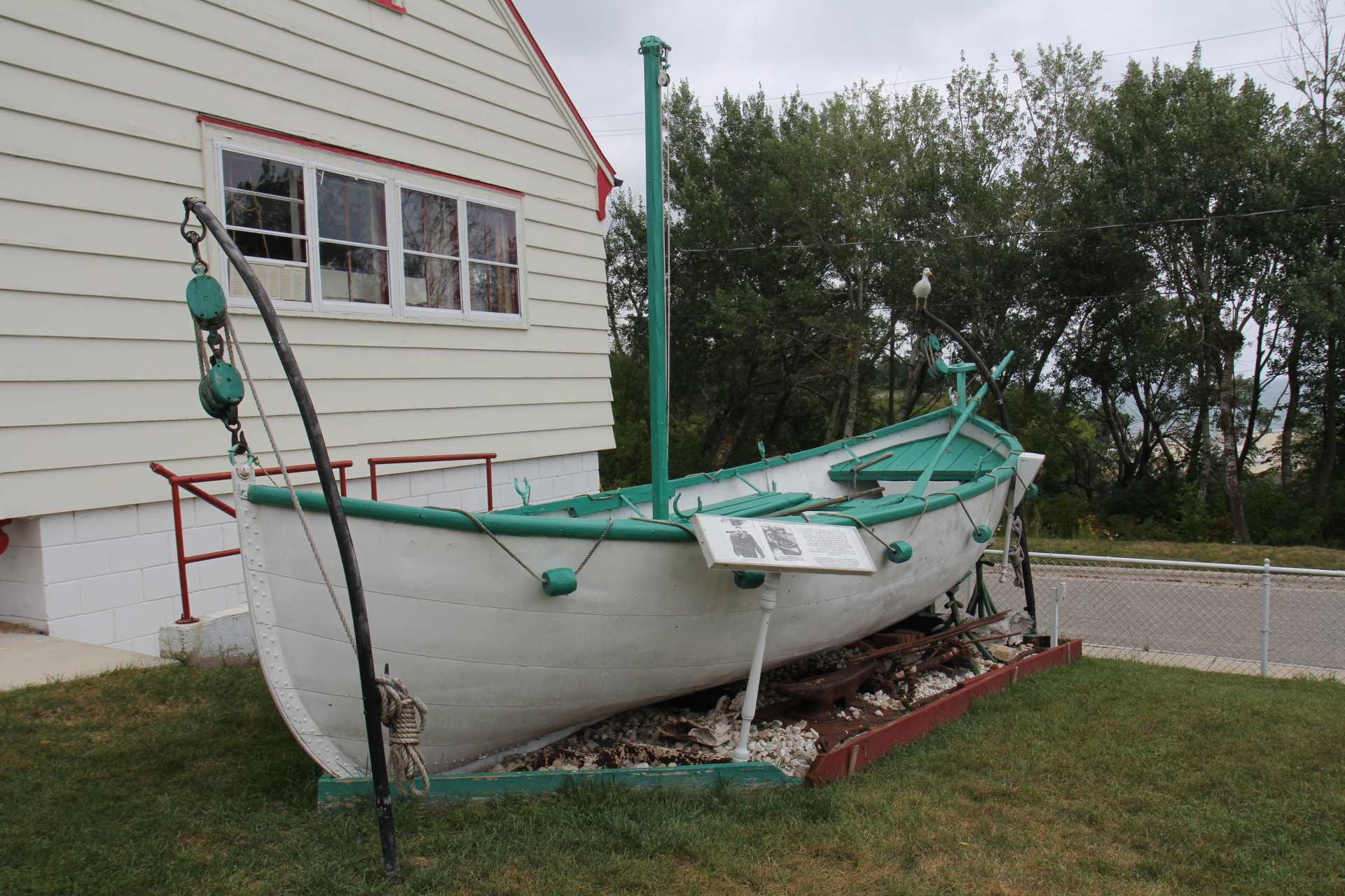 The lifeboat from the shipwrecked SS Milwaukee train ferry, on display at the Port Washington (Wisconsin) Light Station. It was found with four dead occupants in lower Michigan.